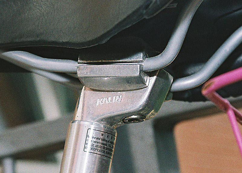 Bicycle seatpost